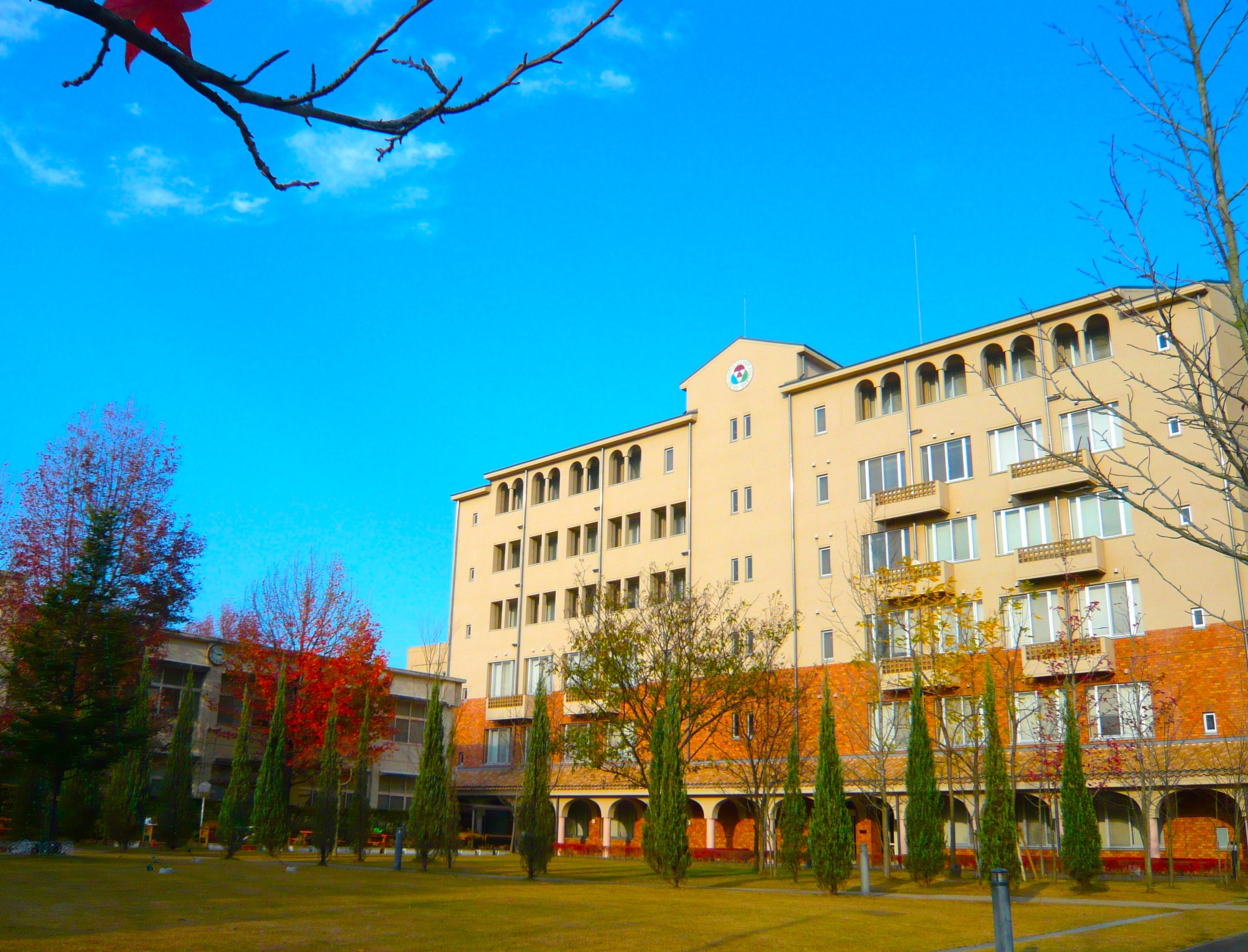 Seirei Christopher University, Hamamatsu, Japan